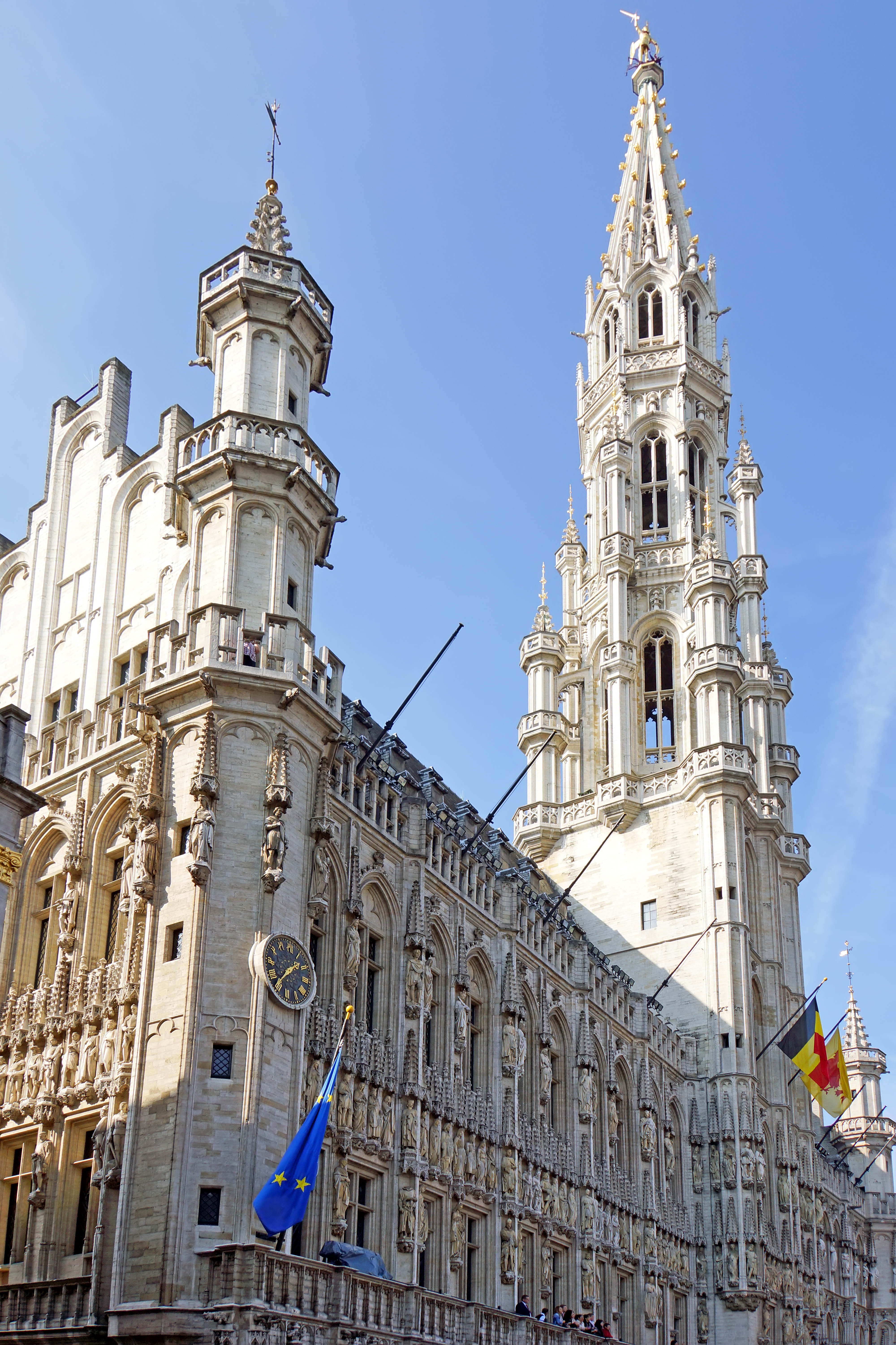 PLEASE, NO invitations or self promotions, THEY WILL BE DELETED. My photos are FREE to use, just give me credit and it would be nice if you let me know, thanks. The Brussels City Hall was built on the south side of the square in stages between 1401 and 1455, and made the Grand Place the seat of municipal power. It towers 96 meters (315 ft) high, and is capped by a 3 meters (12 ft) statue of Saint Michael slaying a demon. The facade is decorated with numerous statues representing nobles, saints, and allegorical figures. The present sculptures are reproductions; the older ones are in the city museum in the "King's House" across the Grand Place.